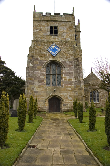 St.Michael's-on-Wyre Church, near to St Michael's on Wyre, Lancashire, Great Britain.